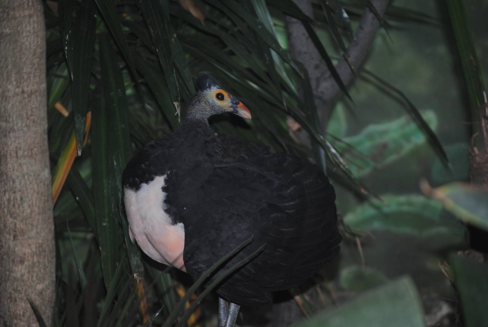 Maleo at Bronx Zoo, the only zoo to hold this species outside of Sulawesi.